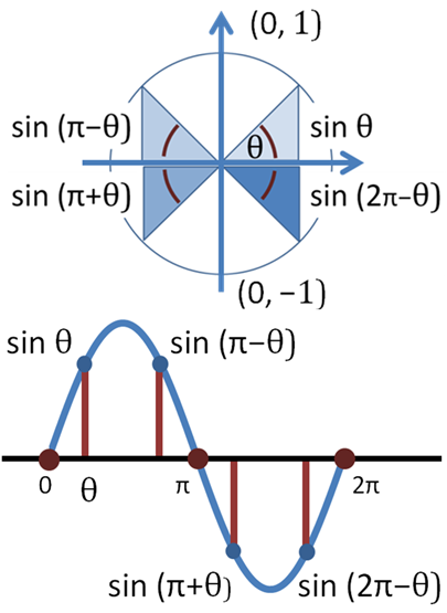 Comparison of sine function on unit circle with graph